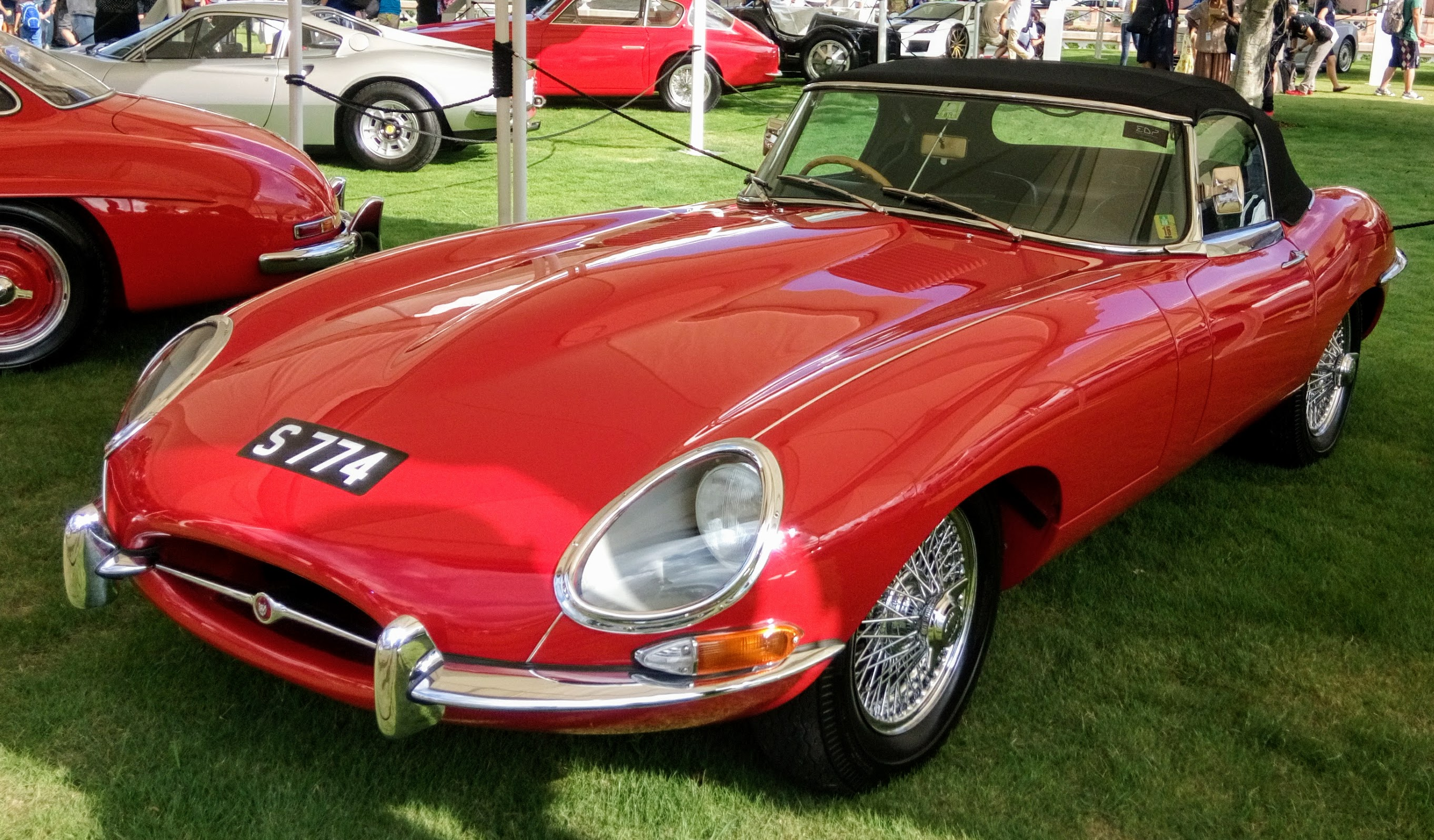 A red Jaguar E-Type in Tuen Mun,Hong Kong